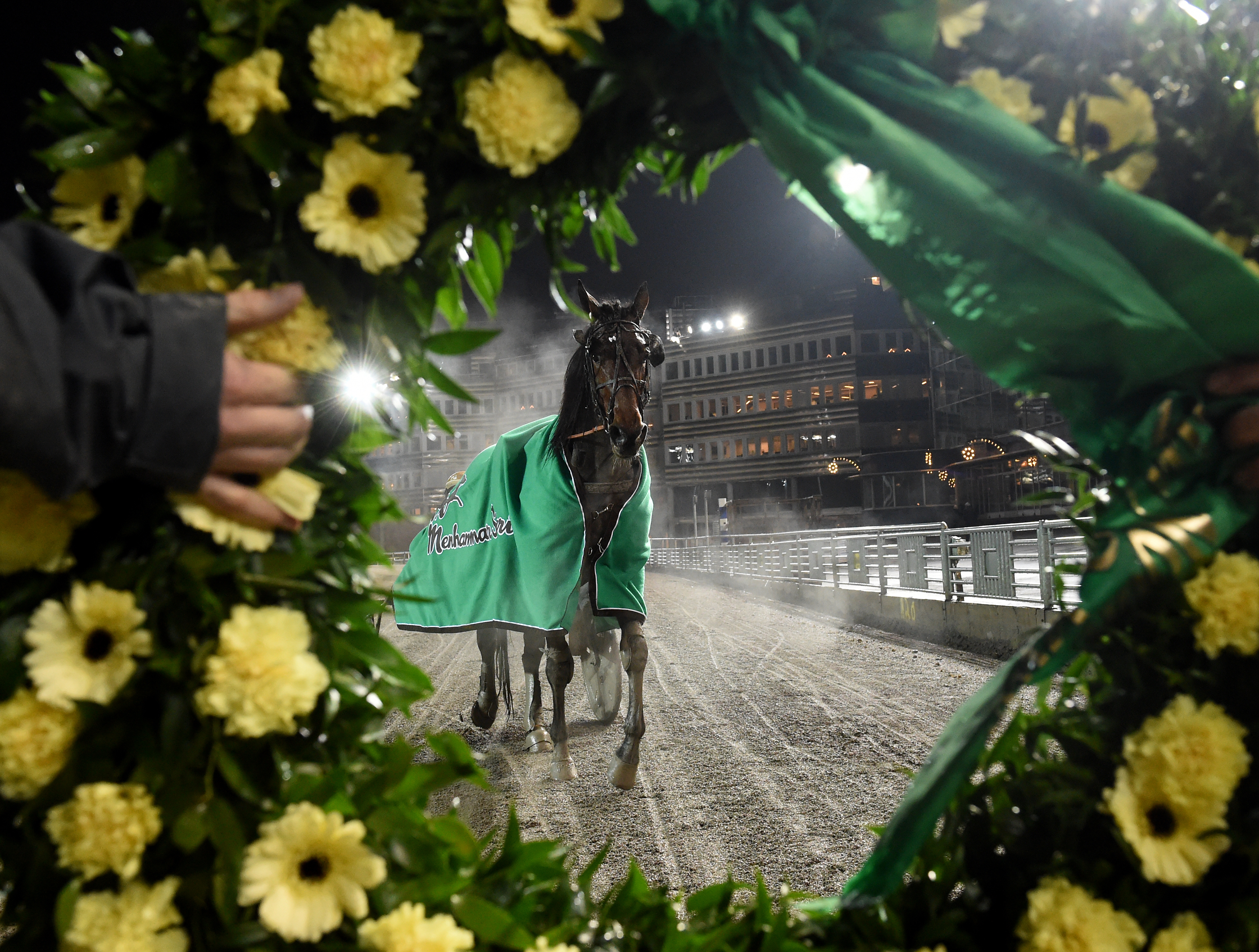 Romeus after winning Big Noon-pokalen at Solvalla 2015-12-02.